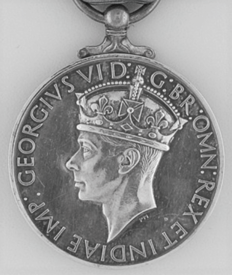 Awarded 1940 to late 1940s